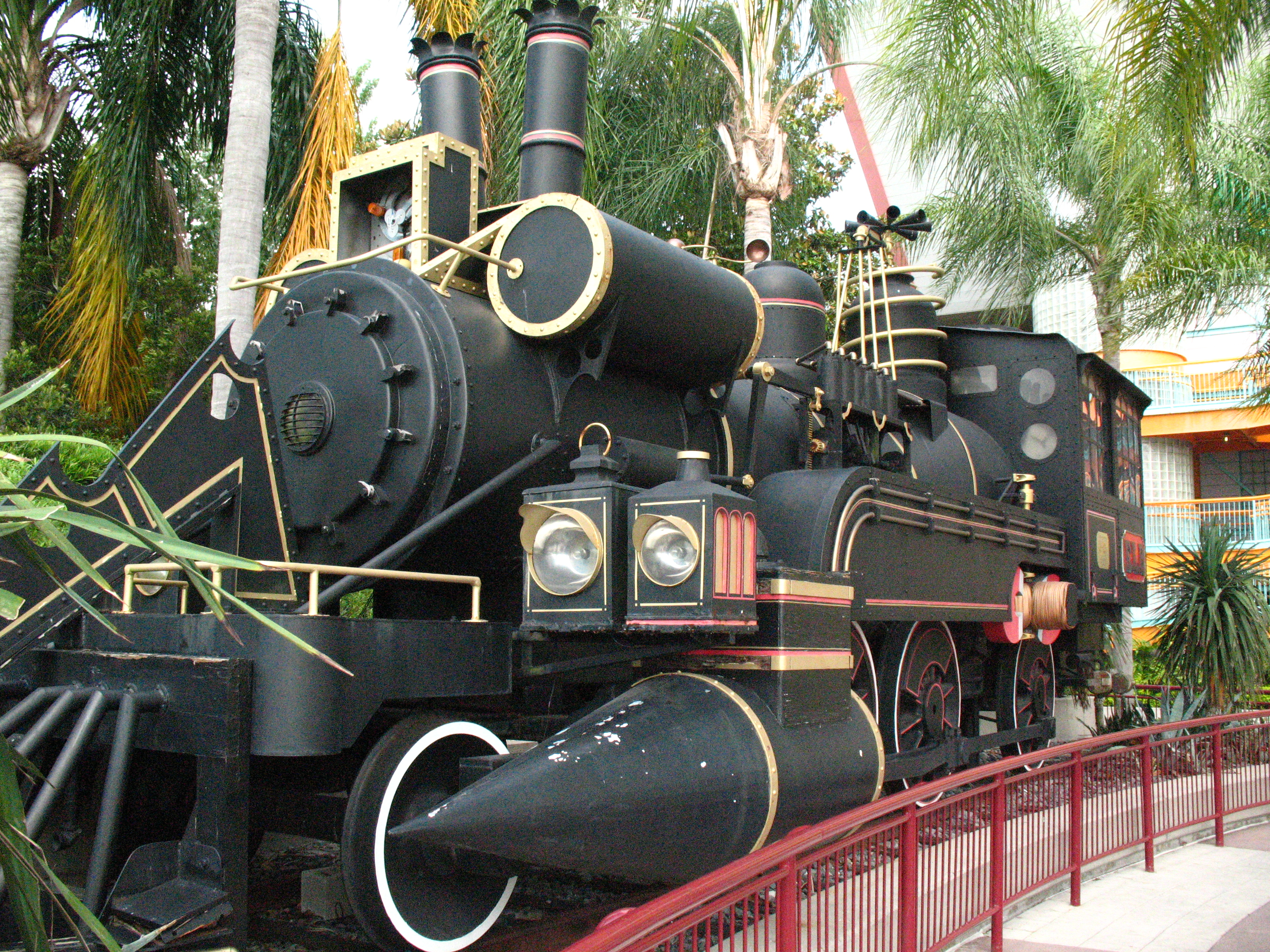 The locomotive from the former Back to the Future: The Ride at Universal Studios Florida and featured in Back to the Future Part III. Taken June 2007